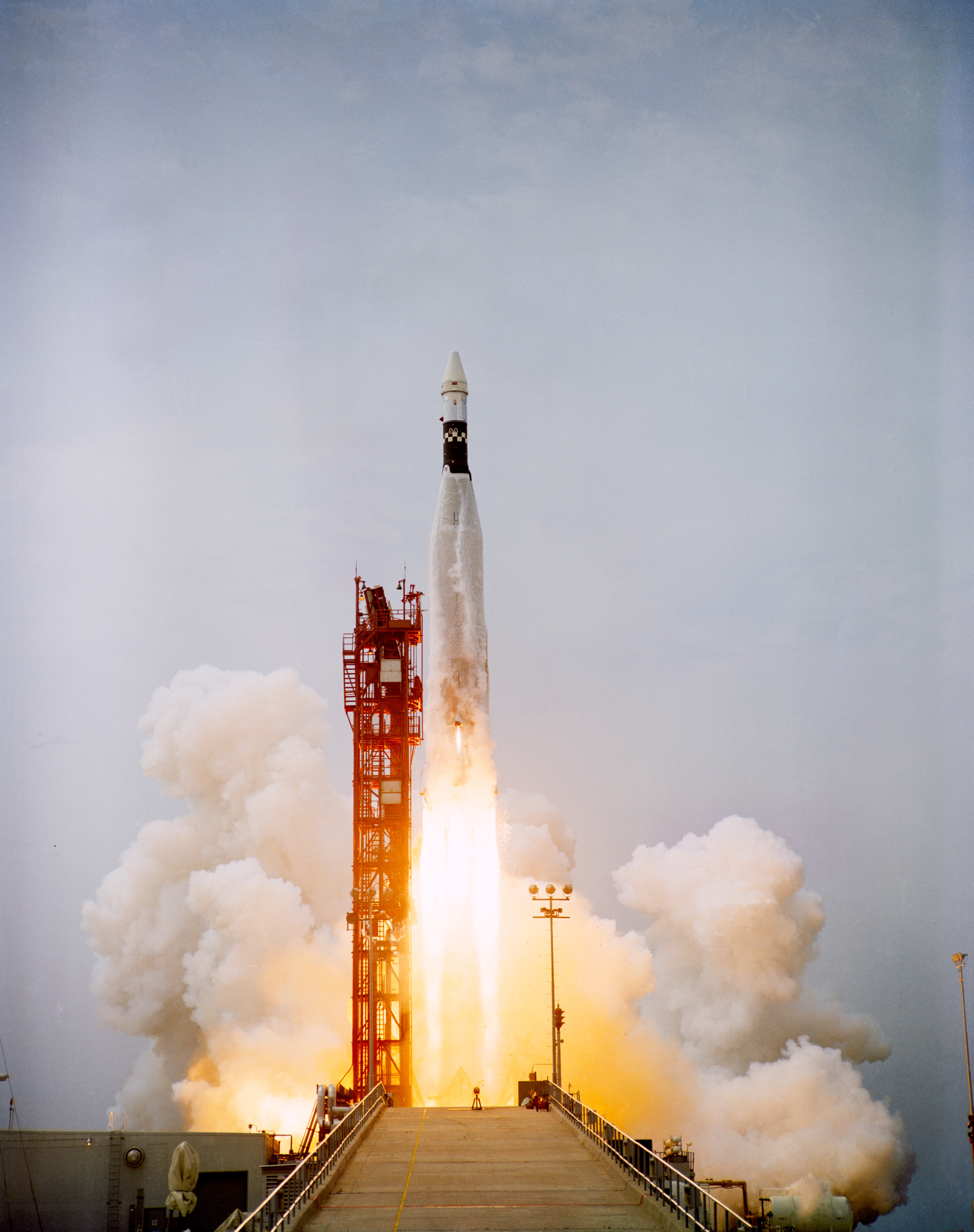 An Augmented Target Docking Adapter ATDA atop an Atlas launch vehicle is launched from Cape Kennedy's Pad 14 at 10 a.m., June 1, 1966. The ATDA is a rendezvous and docking vehicle for the Gemini 9-A space mission.